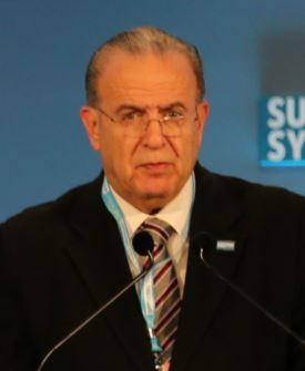 Cropped photo of Cypriot Foreign Minister Ioannis Kasoulidis speaking at the Supporting Syria and the Region conference in February 2016